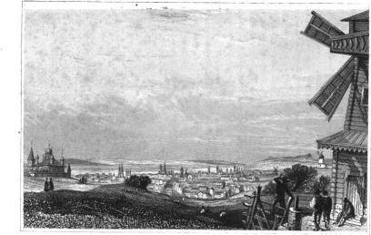 This is old litografia with view of Galich, Russia. This picture from book russian writer Svin'in «Картины России и быть разноплеменных ея народов»